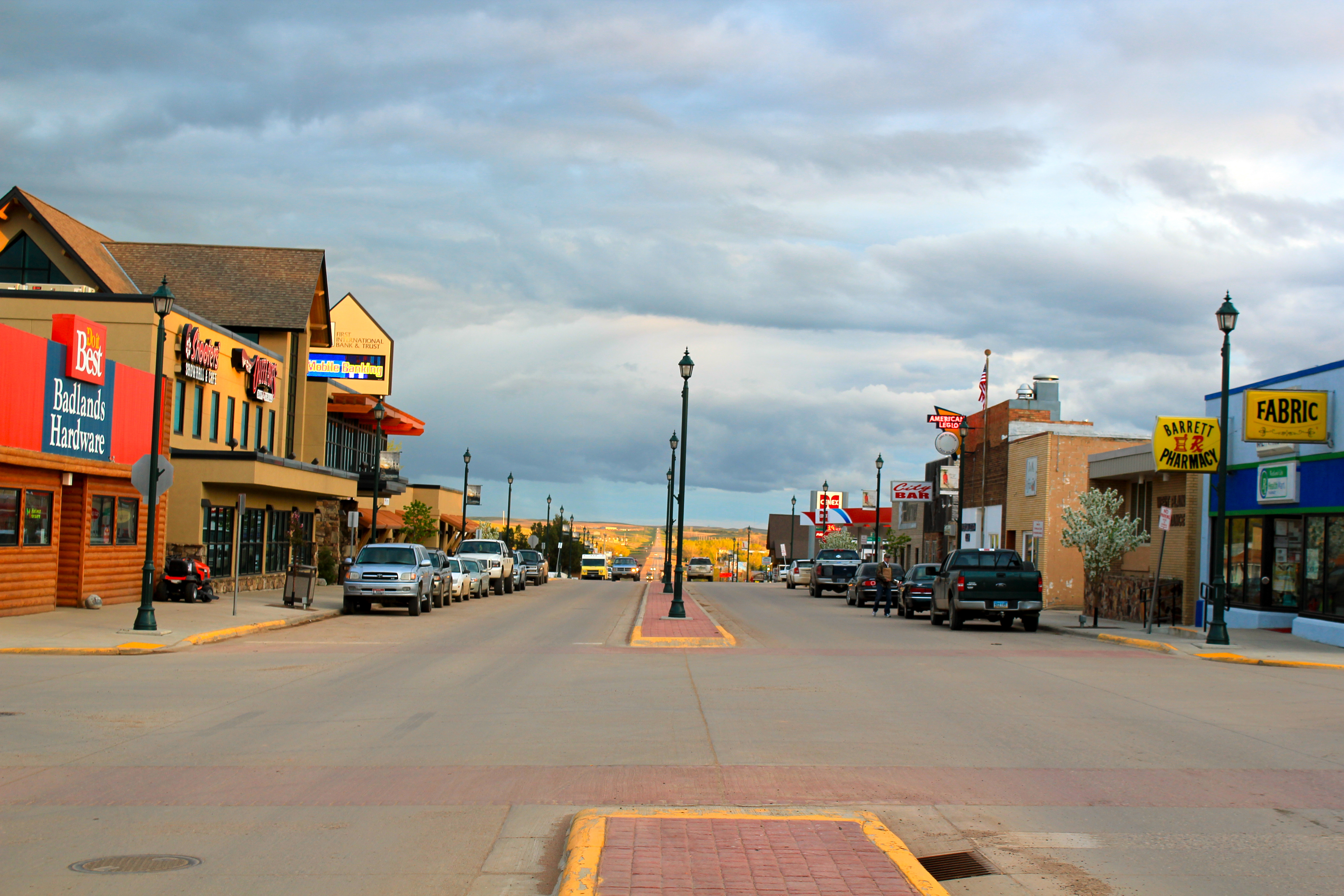 Looking south down main street at the intersection of 2nd Ave in Watford City